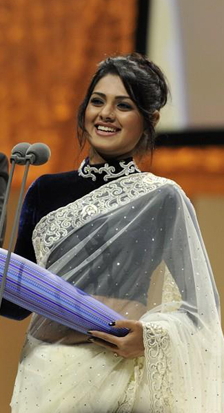 7th Annual Asia Pacific Screen Awards (APSA) 2013 Winner